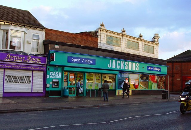 Jacksons, Newland Avenue The 108 Jacksons stores were subsequently purchased by Sainsbury's and became Sainsbury's at Jacksons. The building shows its vintage in the upper storey and many Jacksons stores were similarly tiled and decorated. The southern edge of the grid square runs through this store, roughly through the letter "J".